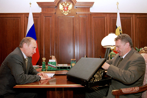 THE KREMLIN, MOSCOW. Vladimir Putin with Vladimir Zhirinovsky, leader of the Liberal Democratic Party of Russia.